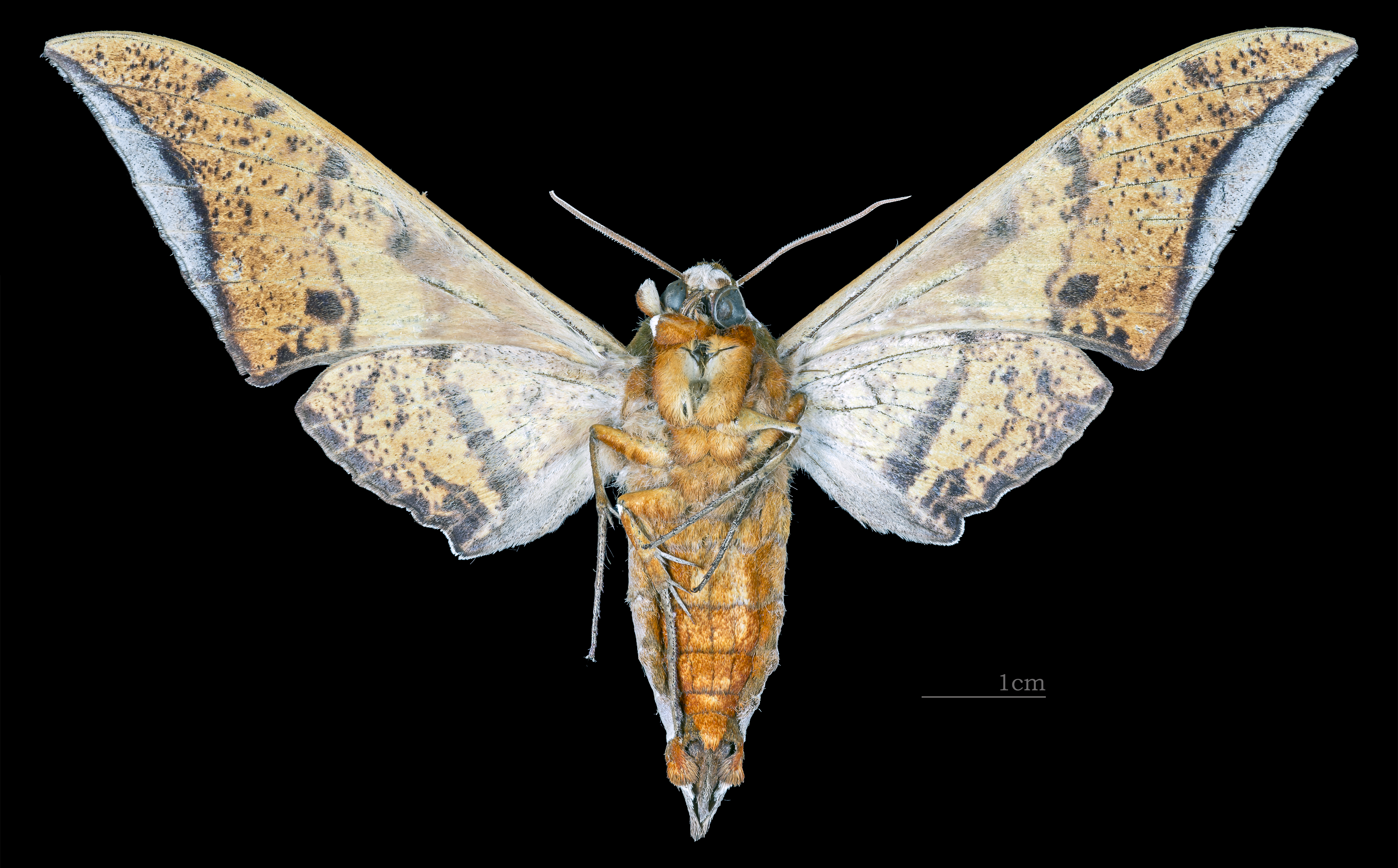 Spotted gliding hawkmoth - △ Ventral side Collection of the Mathematician Laurent Schwartz